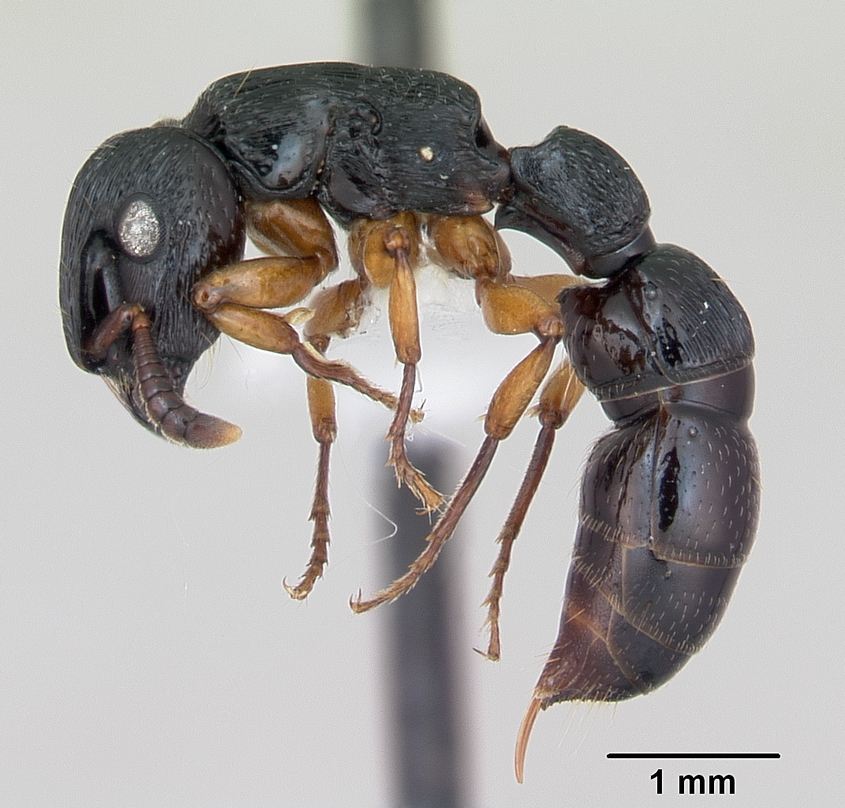 Profile view of ant Cylindromyrmex brasiliensis specimen casent0173502.